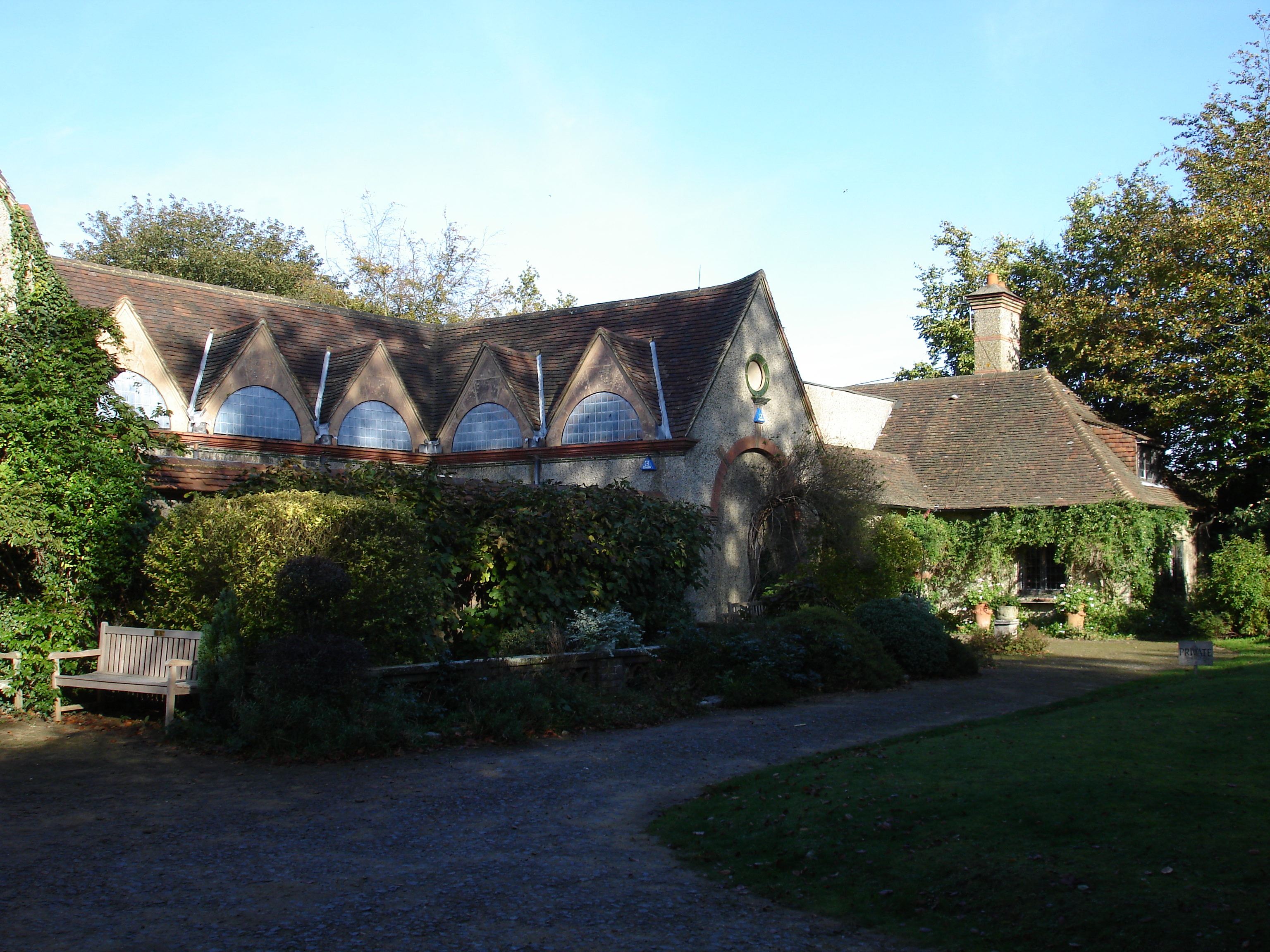 Watts Gallery is an art gallery in the village of Compton in Surrey. Suzanne Knights, my photo, Oct 2006